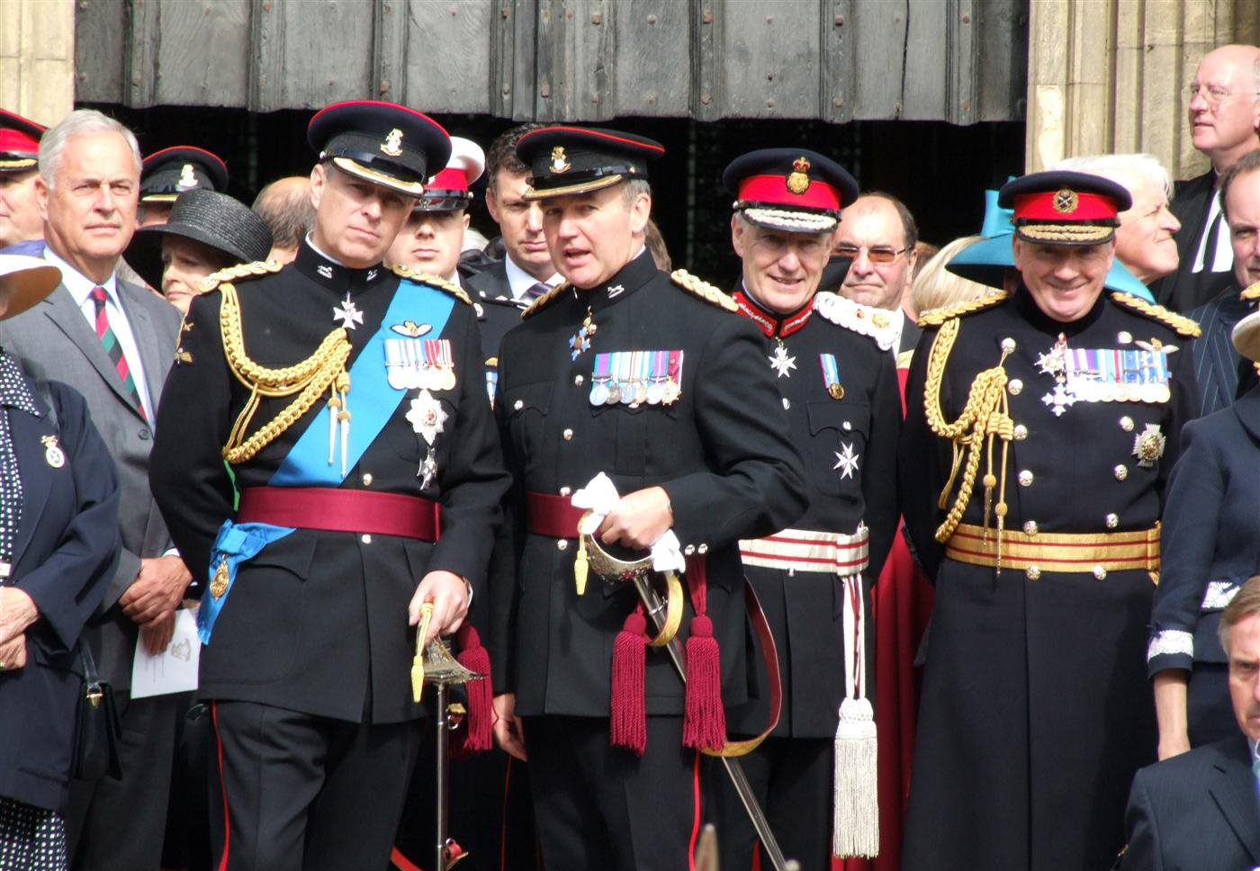 HRH Prince Andrew, Duke of York, Major General JNR Houghton KCB CBE, Lord Crathorne Lord Lieutenant of N. Yorkshire, and General Sir Richard Dannatt KCB CBE MC.